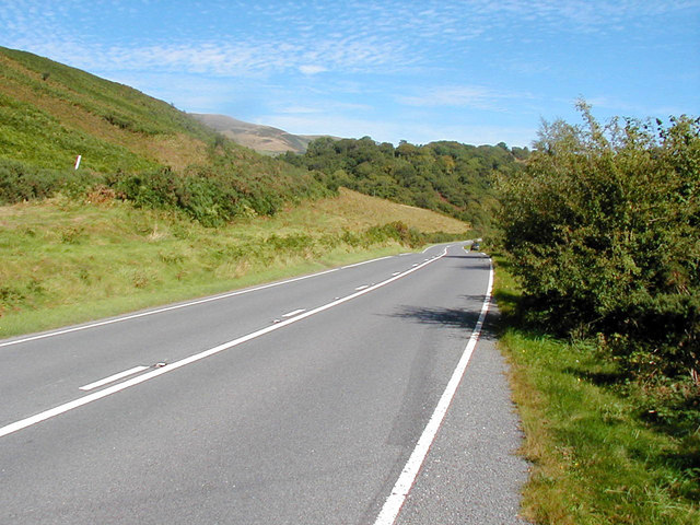 A470 Road, near to Commins Coch, Powys, Wales. Just to the east of Commins Coch